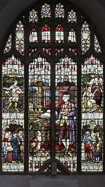 St Nicholas Church, Dereham, Norfolk - Window Depicting William Cowper